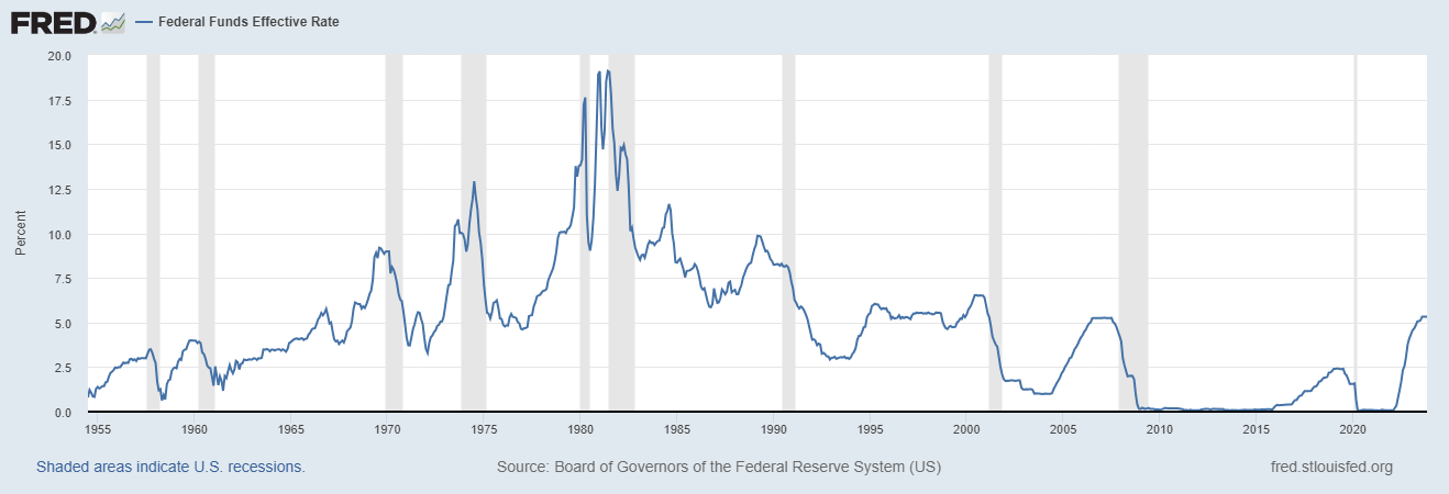 Federal funds rate history and recessions